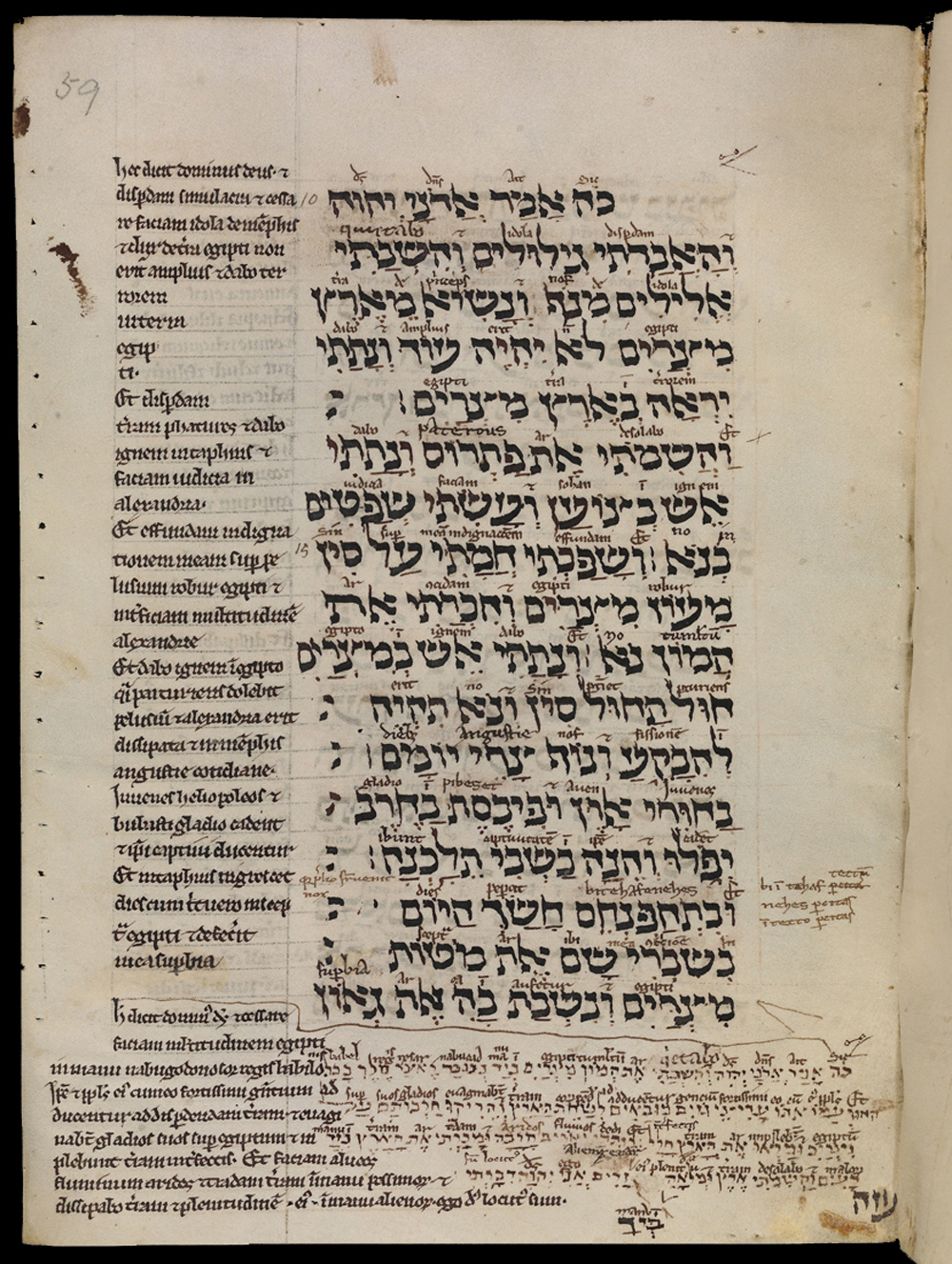 The book of Ezekiel. English manuscript from early 13th century, 8 1/8 x 6 in. (20.6 x 15.2 cm), MS. Bodl. Or. 62, fol. 59a. This book functioned as study tool for Christian scholars. The Hebrew text was copied as in a Latin codex, from left to right. The text here is Ezekiel 30:13–18. A Latin translation appears in the margins with further interlineations above the Hebrew. These follow the order of the Hebrew, making it easier to match Hebrew and Latin words and to show grammatical structures.